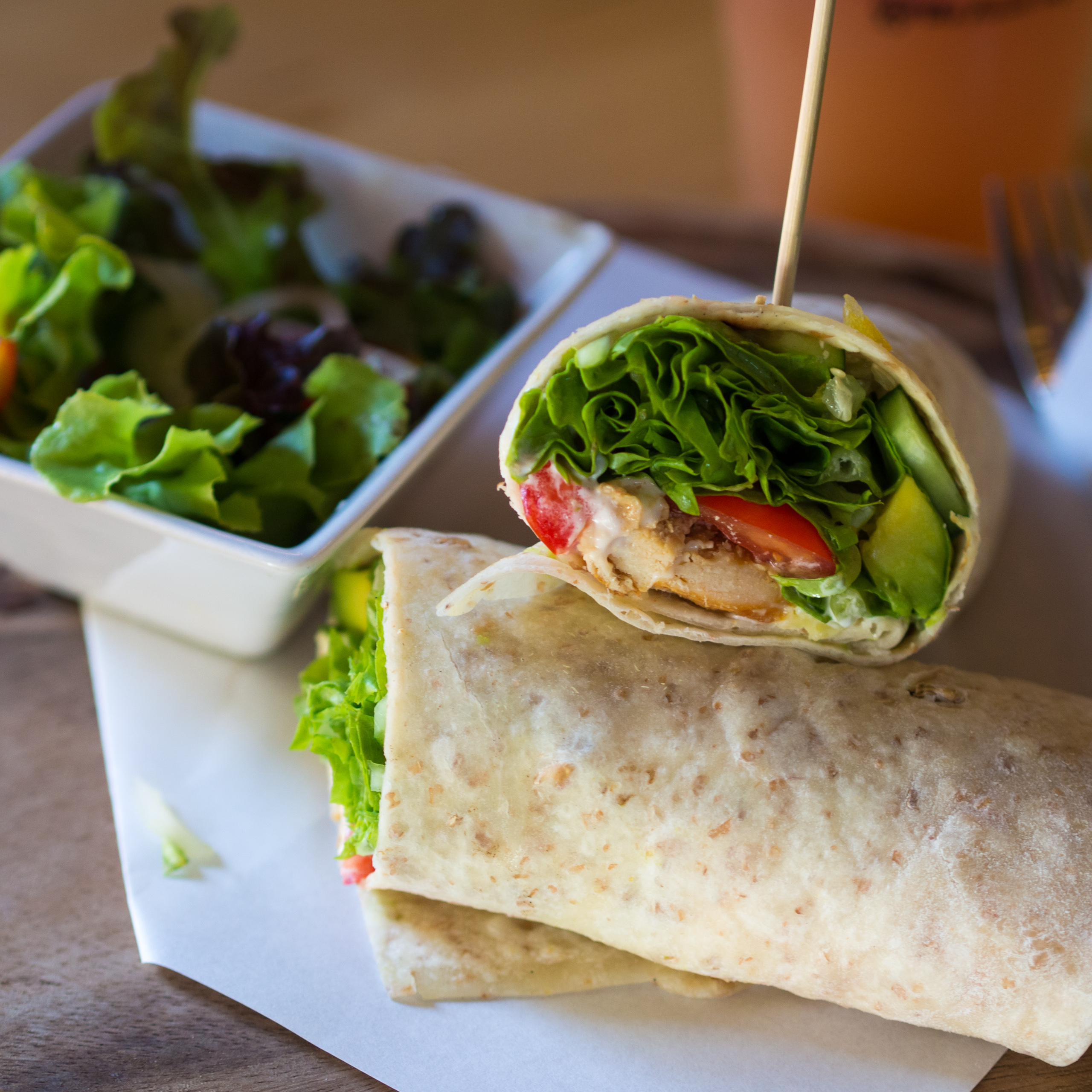 Smoked chicken and avocado wrap at the Fresh and Wraps Resto Bar in Chiang Mai.